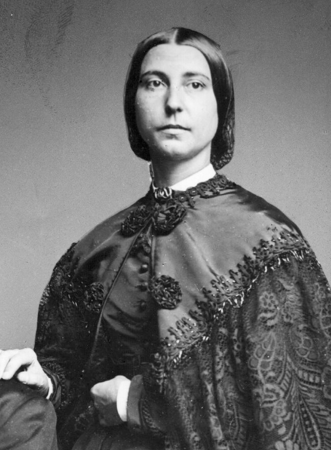 The philosopher John Stuart Mill and Helen Taylor , daughter of Harriet Taylor.